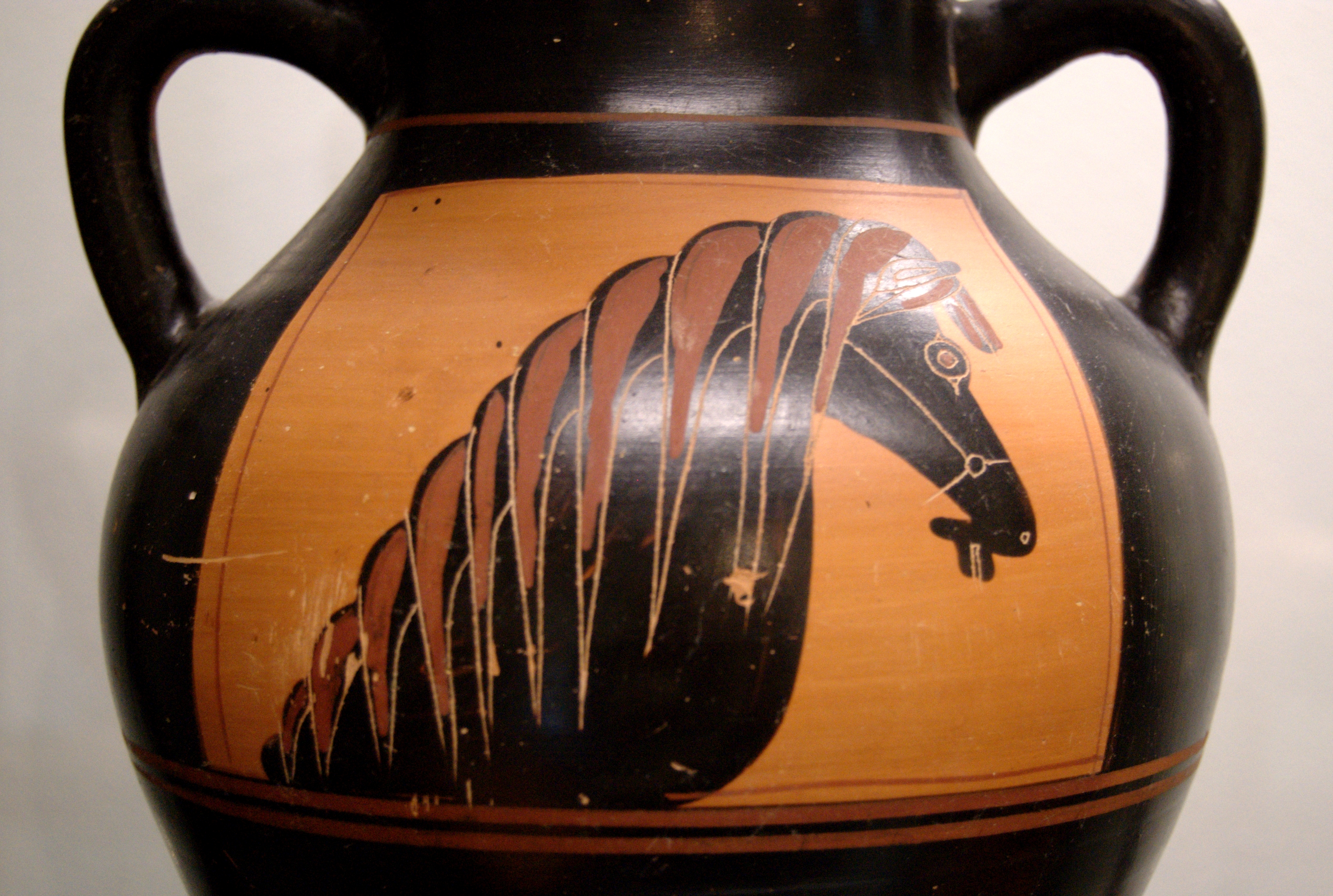 “Horse-head amphora”. Side A of an Attic black-figure amphora, ca. 550 BC. From Vulci.